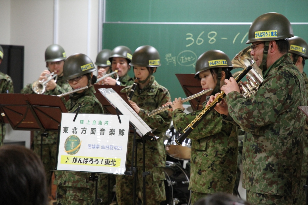 Title 23.3.29 東北音：慰問演奏⑦.JPG Album 東日本大震災における災害派遣活動 慰問演奏活動